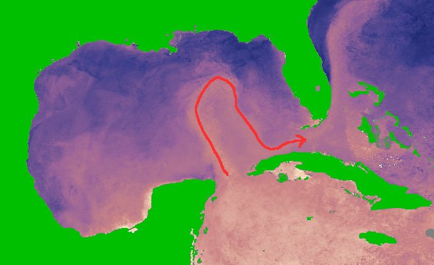 The Loop Current pushes up into the Gulf from the Caribbean Sea. The current’s tropical warmth makes it stand out from the surrounding cooler waters of the Gulf of Mexico in this image. The current loses its northward momentum about mid-way through the gulf, and bends back on itself to flow south. It joins warm waters flowing eastward between Florida and Cuba, which then merge with the Gulf Stream Current on its journey up the East Coast.